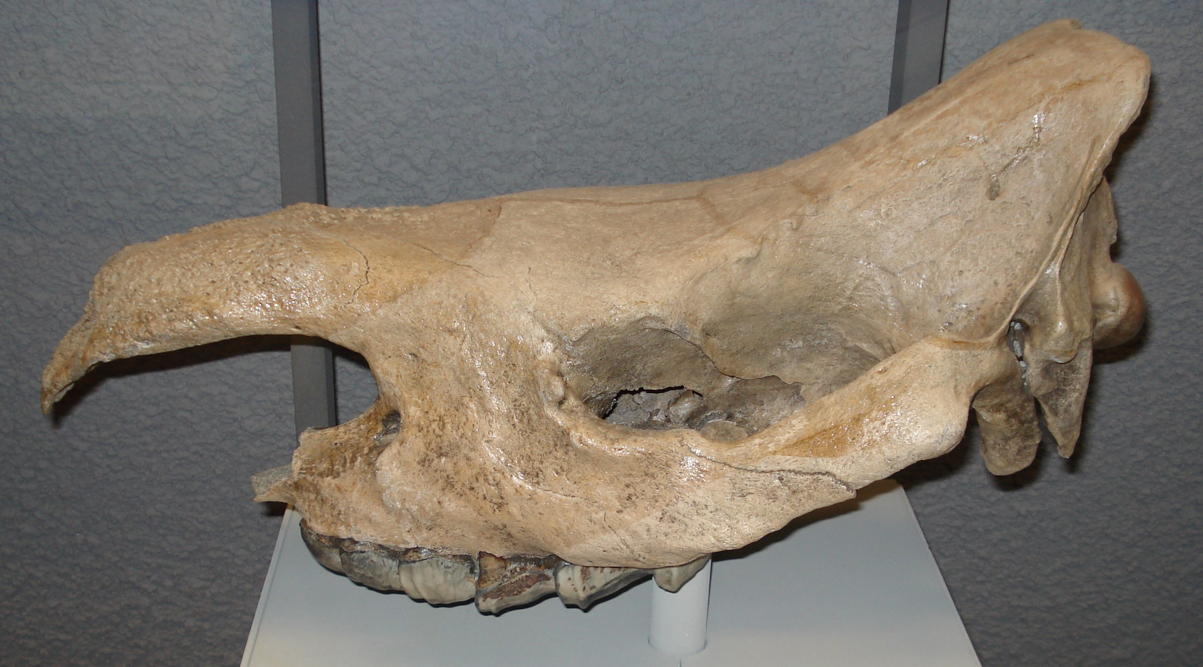 fossil of dicerorhinus